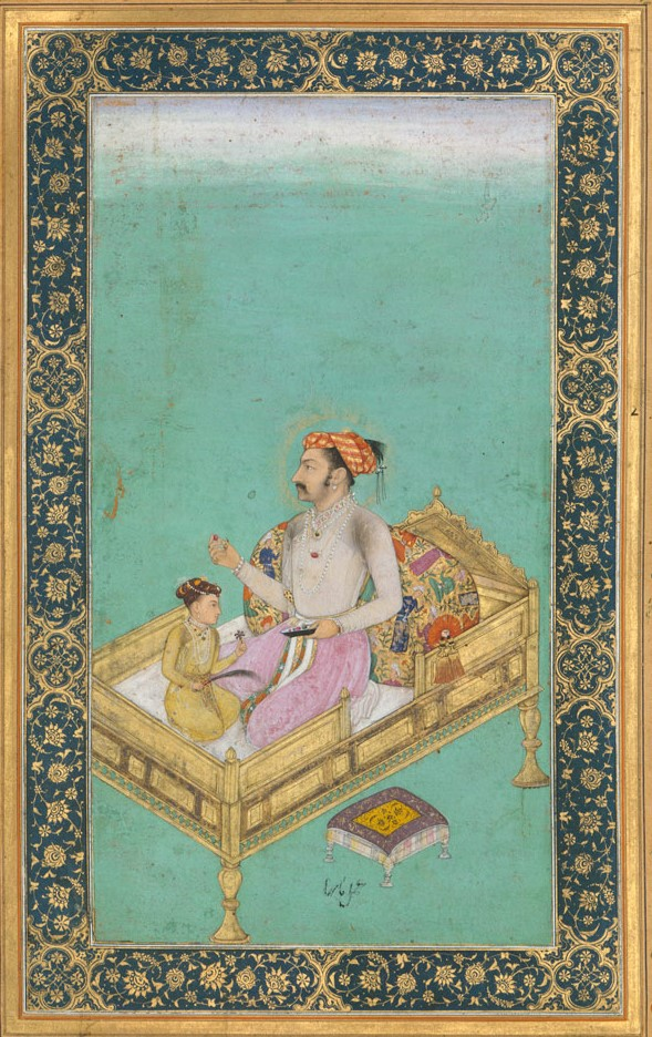 Shah Jahan and his son Dara.